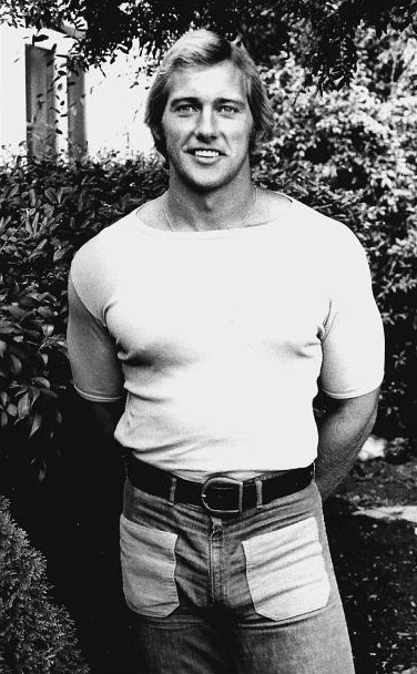 Publicity photo of Ken Sprague (1970).